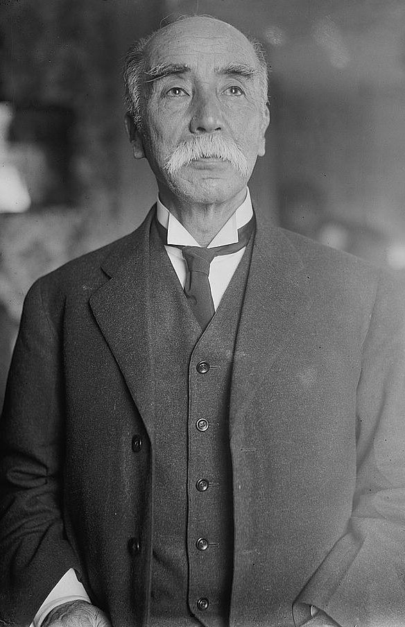 Bain News Service, publisher. Soroku Ebara [no date recorded on caption card] 1 negative : glass ; 5 x 7 in. or smaller. Notes: Title from unverified data provided by the Bain News Service on the negatives or caption cards. Forms part of: George Grantham Bain Collection (Library of Congress). Format: Glass negatives. Repository: Library of Congress, Prints and Photographs Division, Washington, D.C. 20540 USA, General information about the Bain Collection is available at Persistent URL: Call Number: LC-B2- 2758-6